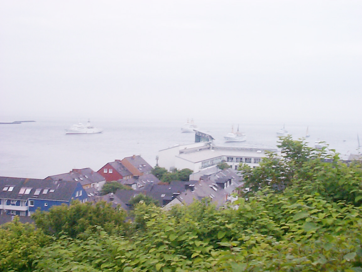 The roadstead of Helgoland.